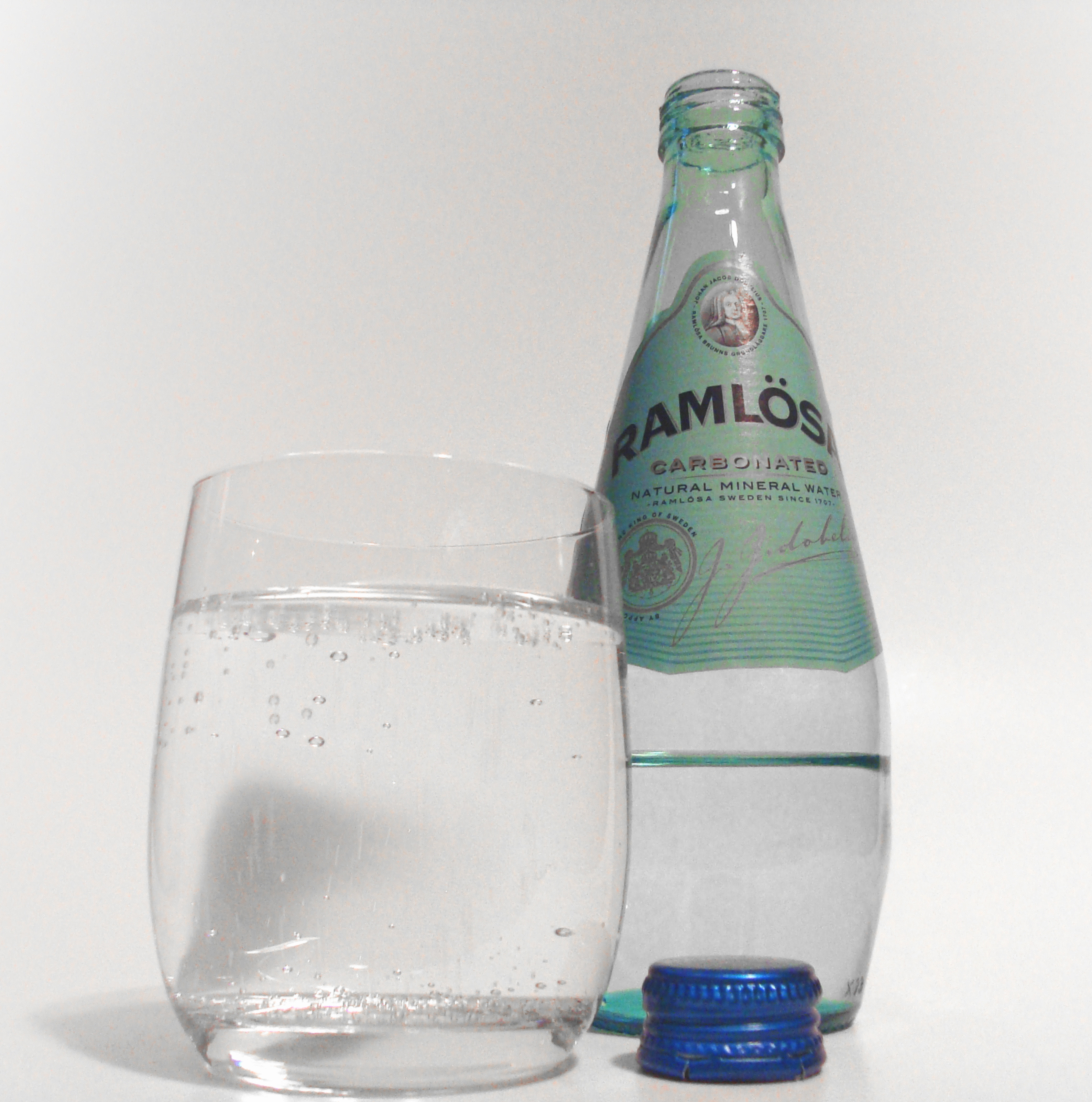 A bottle of Ramlösa mineral water.